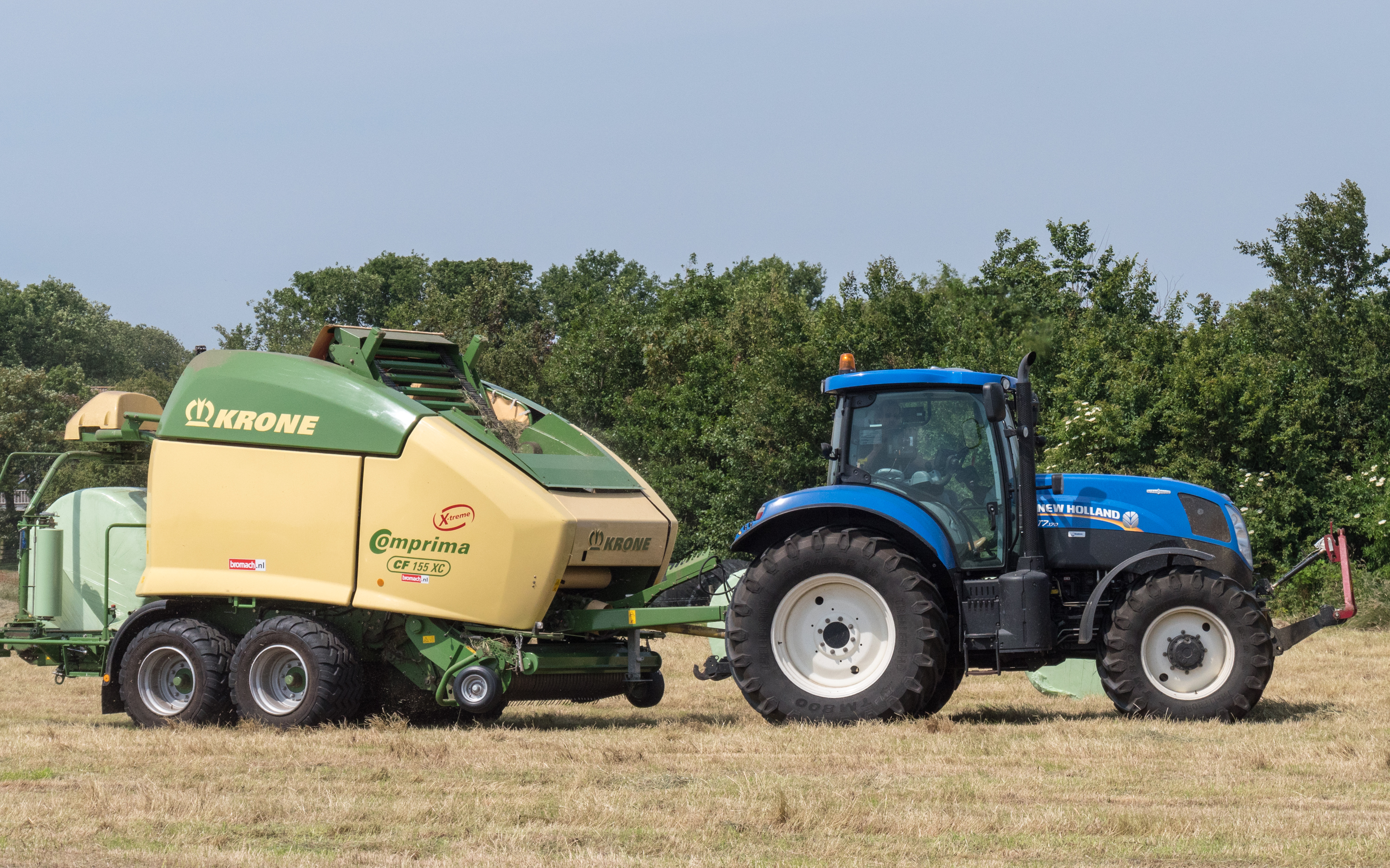 New Holland T7.170 with Krone Comprima CF 155 XC